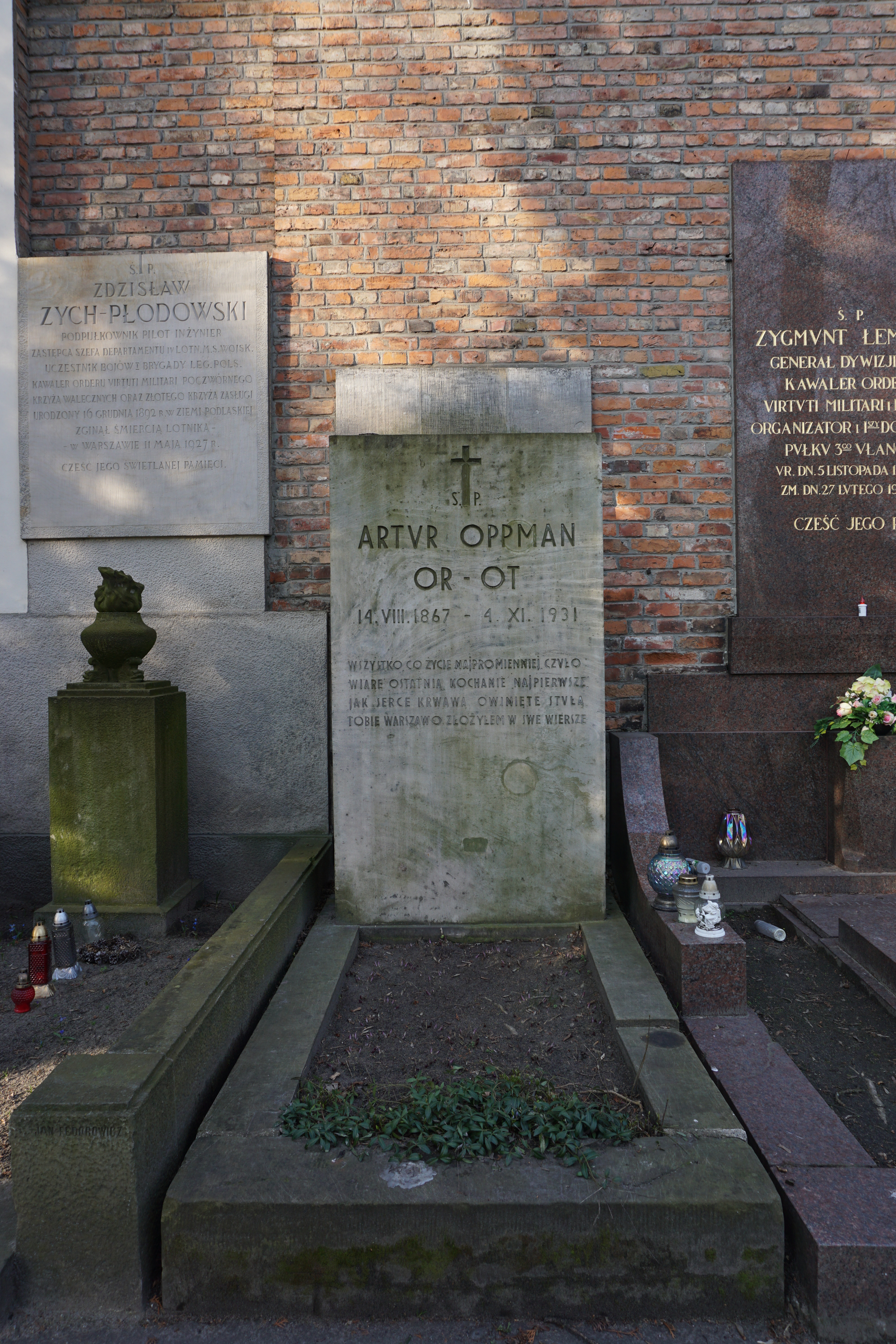 The grave of Artur Oppman at the Powązki Cemetery (Avenue of Deserved, grave 7)